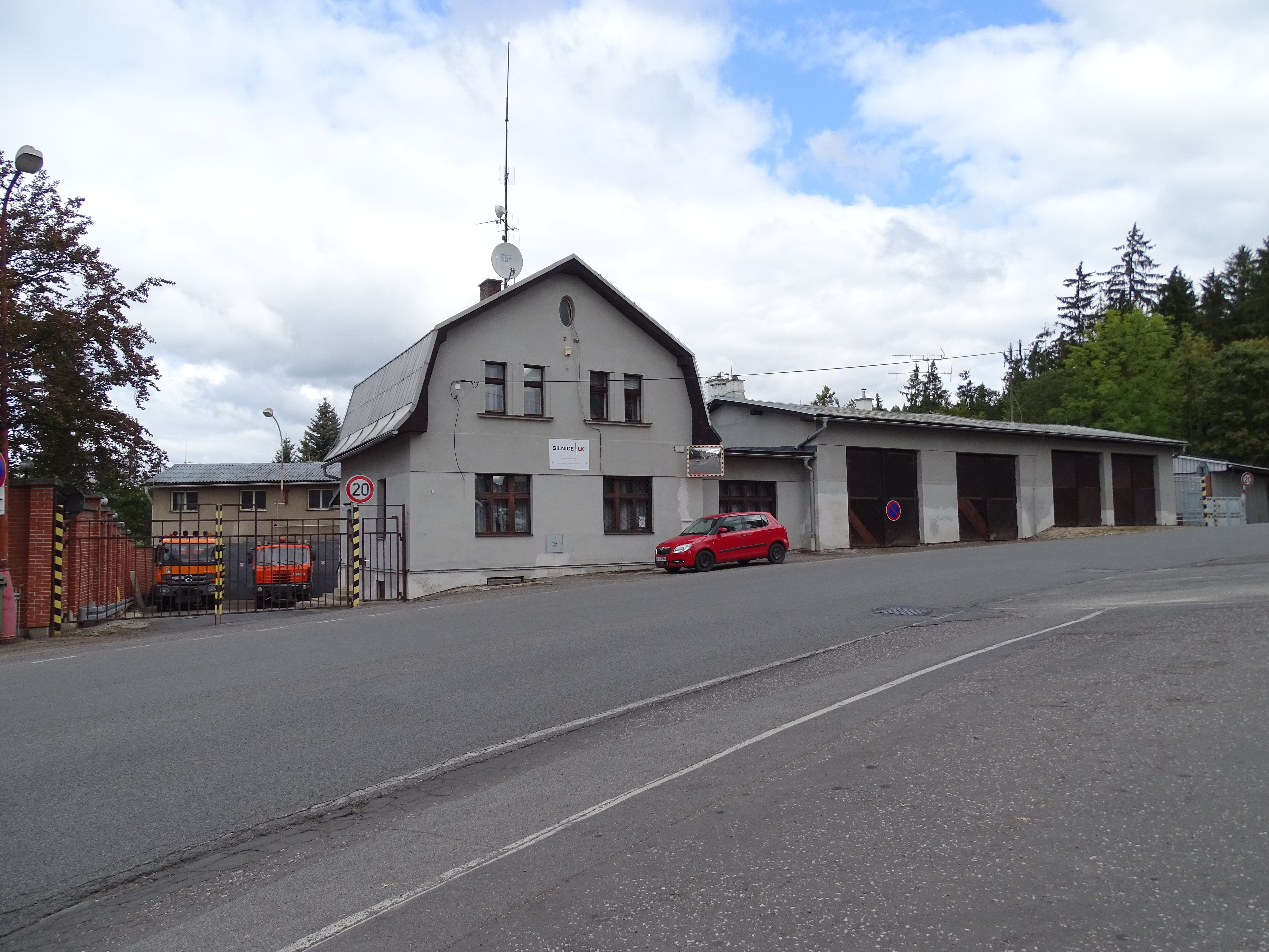 Semily, Semily District, Liberec Region, Czechia. Vysocká 576, Silnice Libereckého kraje.